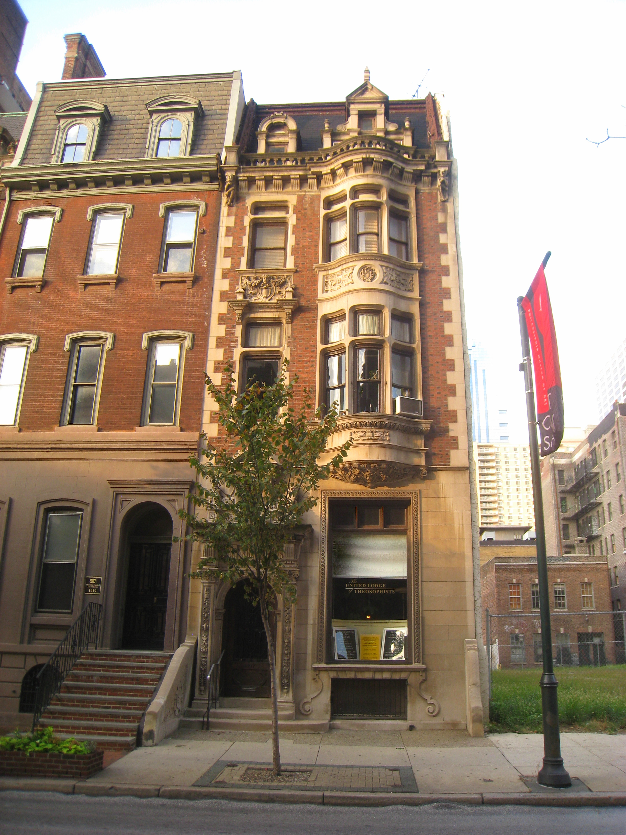 Building in Philadelphia, Pennsylvania, USA.